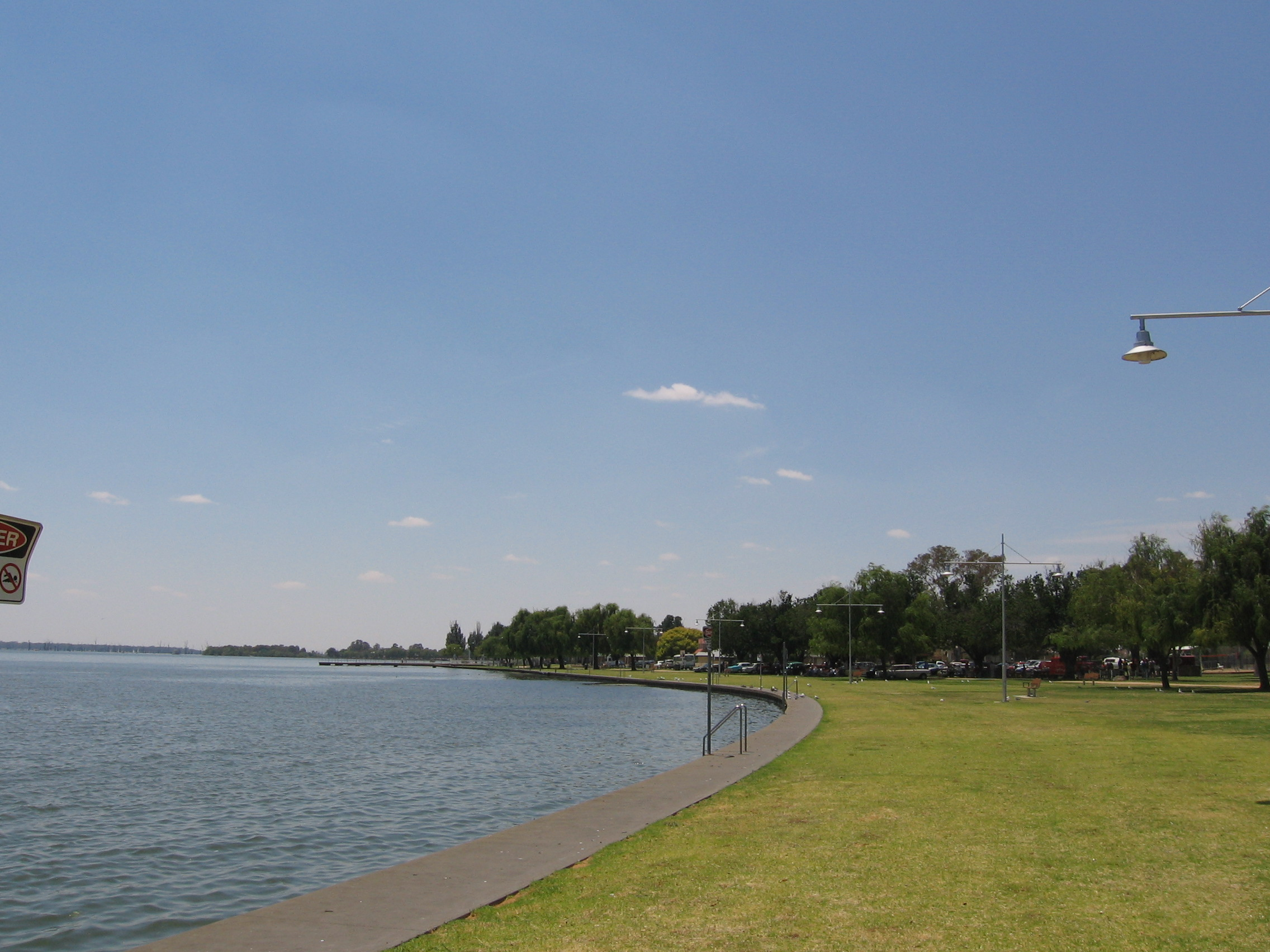 Yarrawonga, Victoria foreshore.